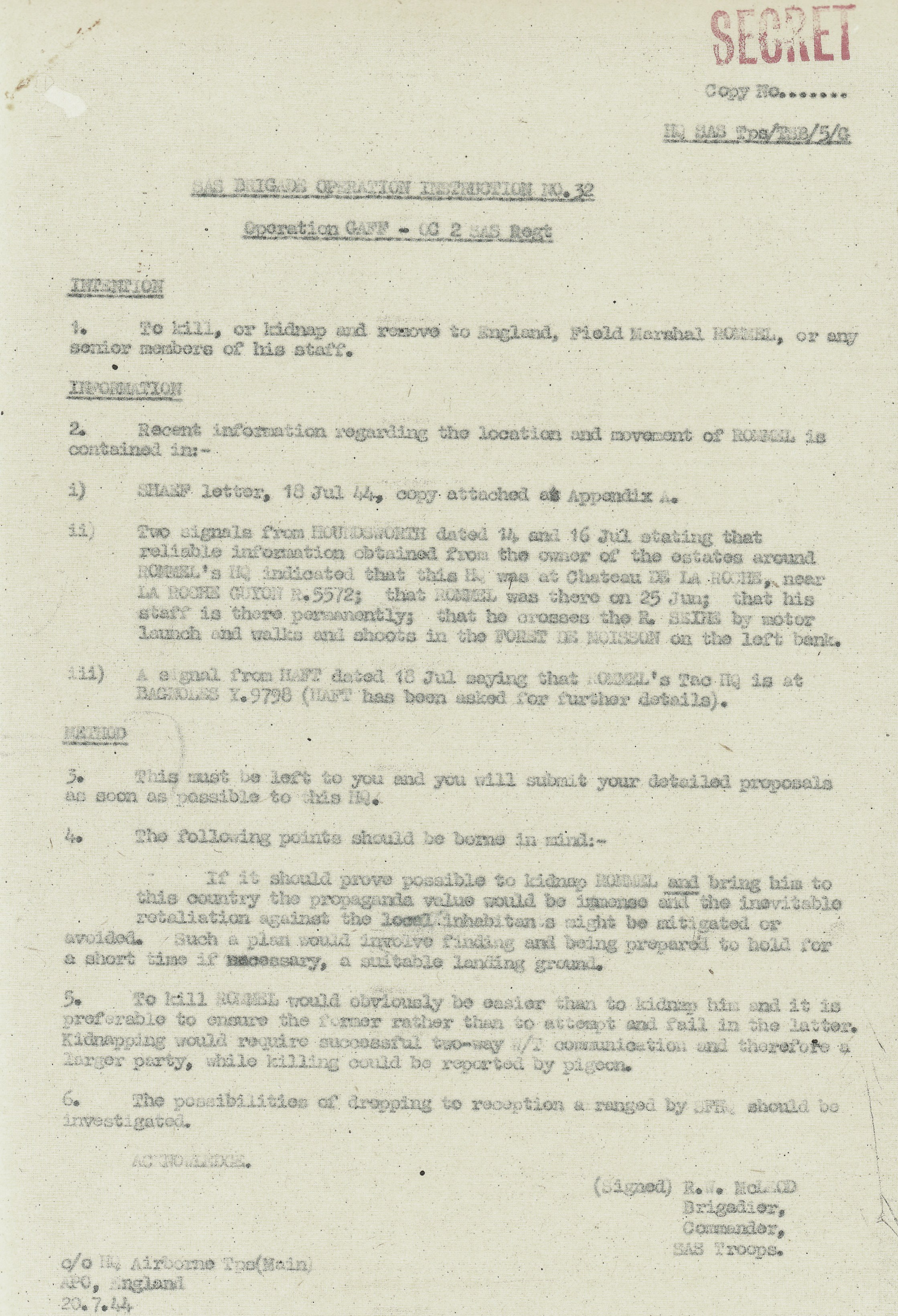 CONOPS for Operation Gaff.